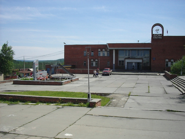 Town square of Dipkun, Russia